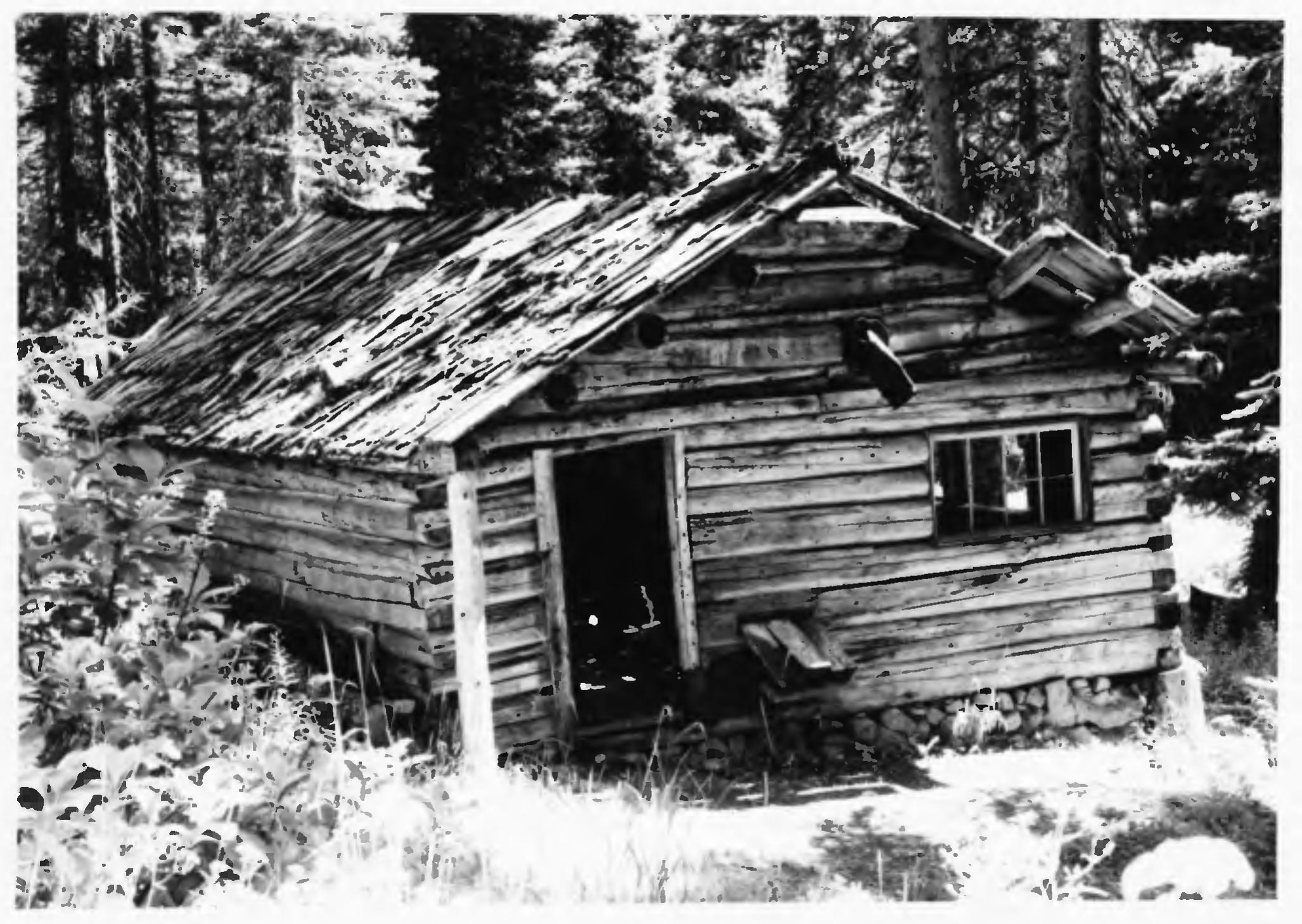 Silphide-Frisco Cabin in North Cascades National Park